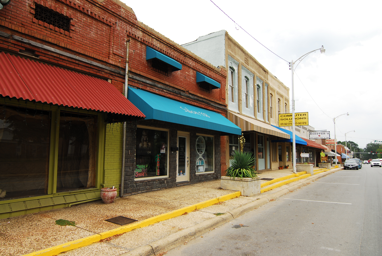 Downtown Sheridan Arkansas in September 2011